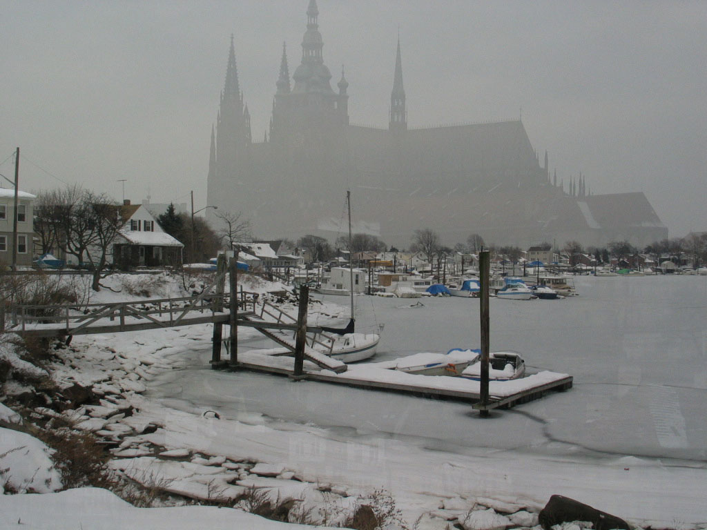 The work of abstract arts, which depicts some unreal scenes of author's imagination. Here, the Prague Castle located in Prague, Czech Republic, "viewed as a mirage" from Gerritsen Beach in Brooklyn, NY USA.